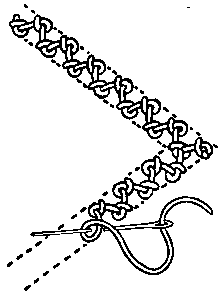 Turk's head knot, from Samplers and Stitches, a handbook of the embroiderer's art by Mrs Archibald Christie, London 1920.